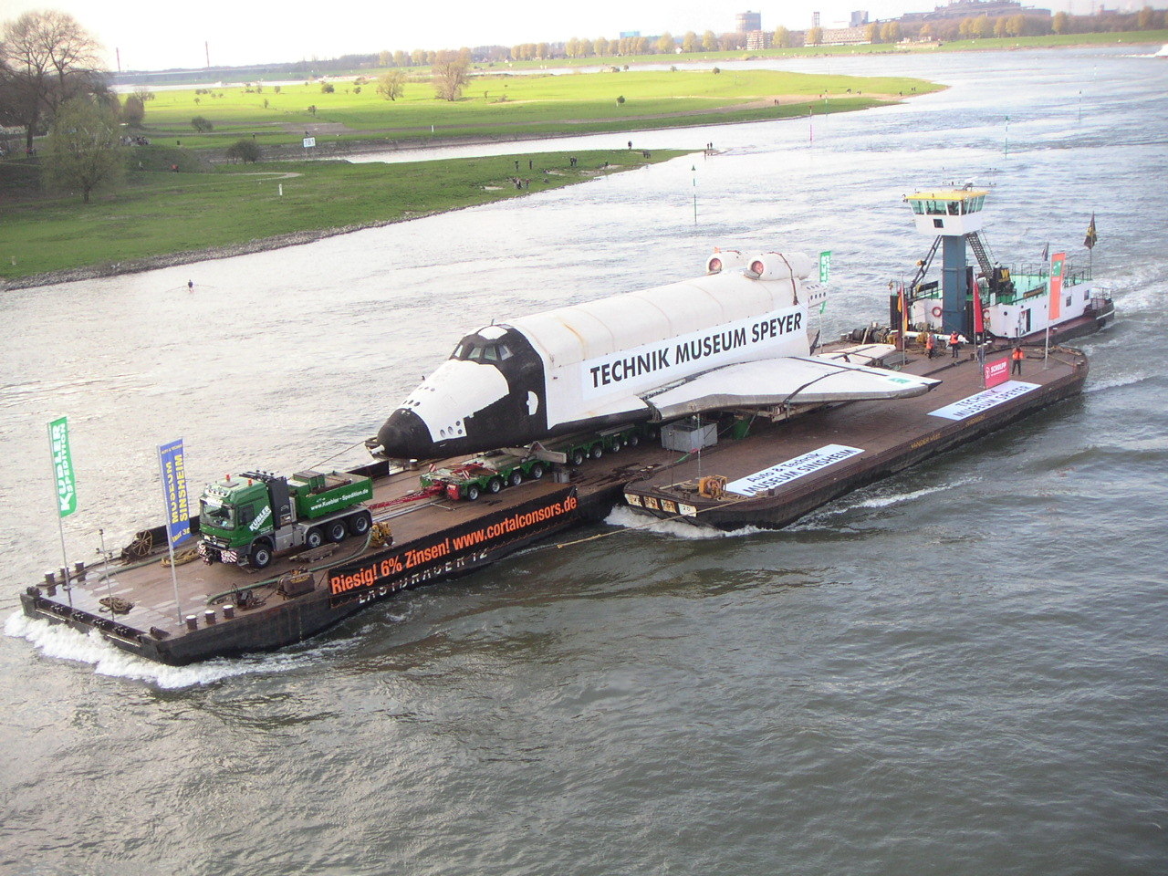 Buran OK-GLI (BTS-02) on Transportation to Exhibition in Speyer